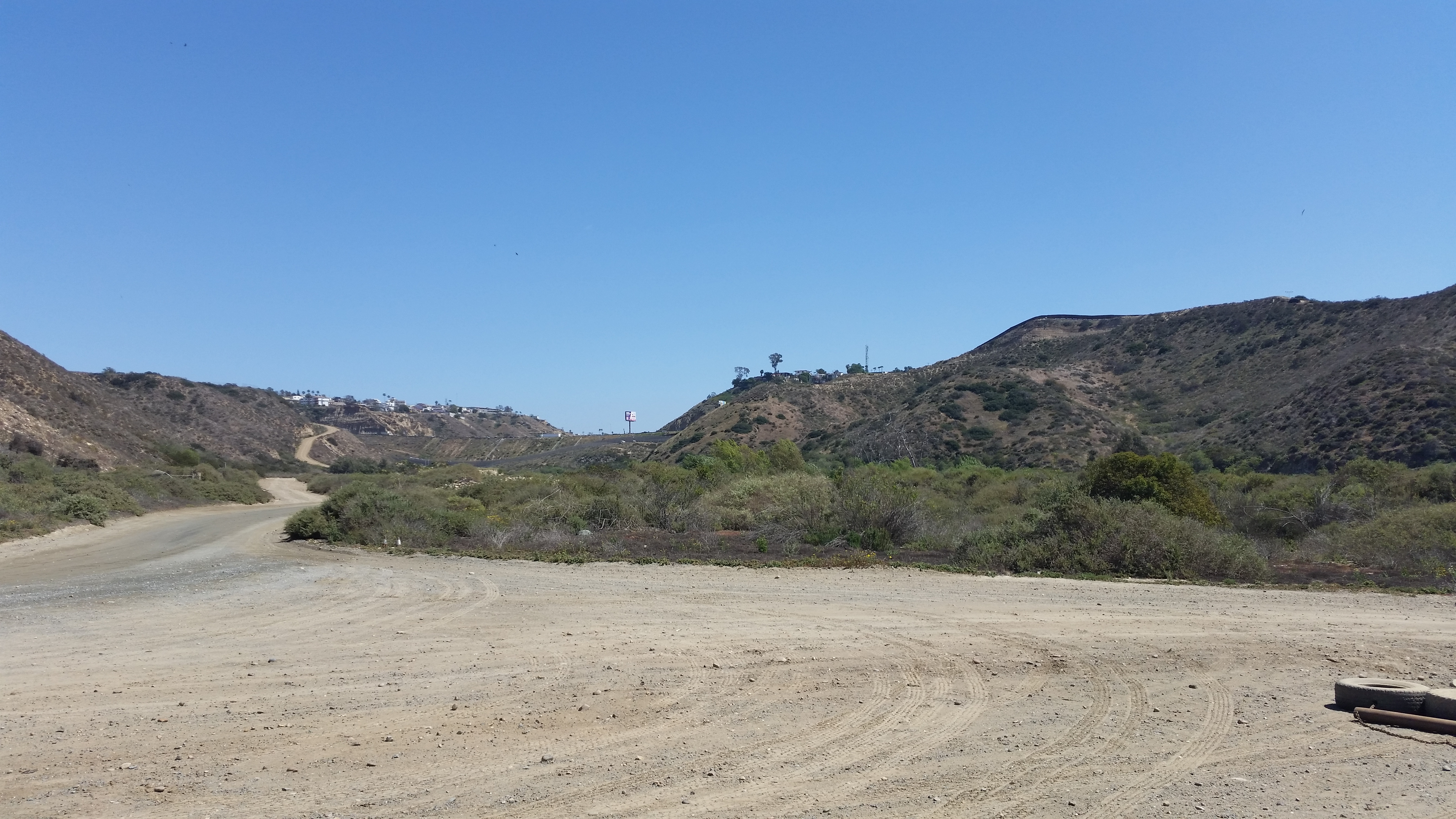 Picture taken within Goat Canyon, looking southsoutheast.